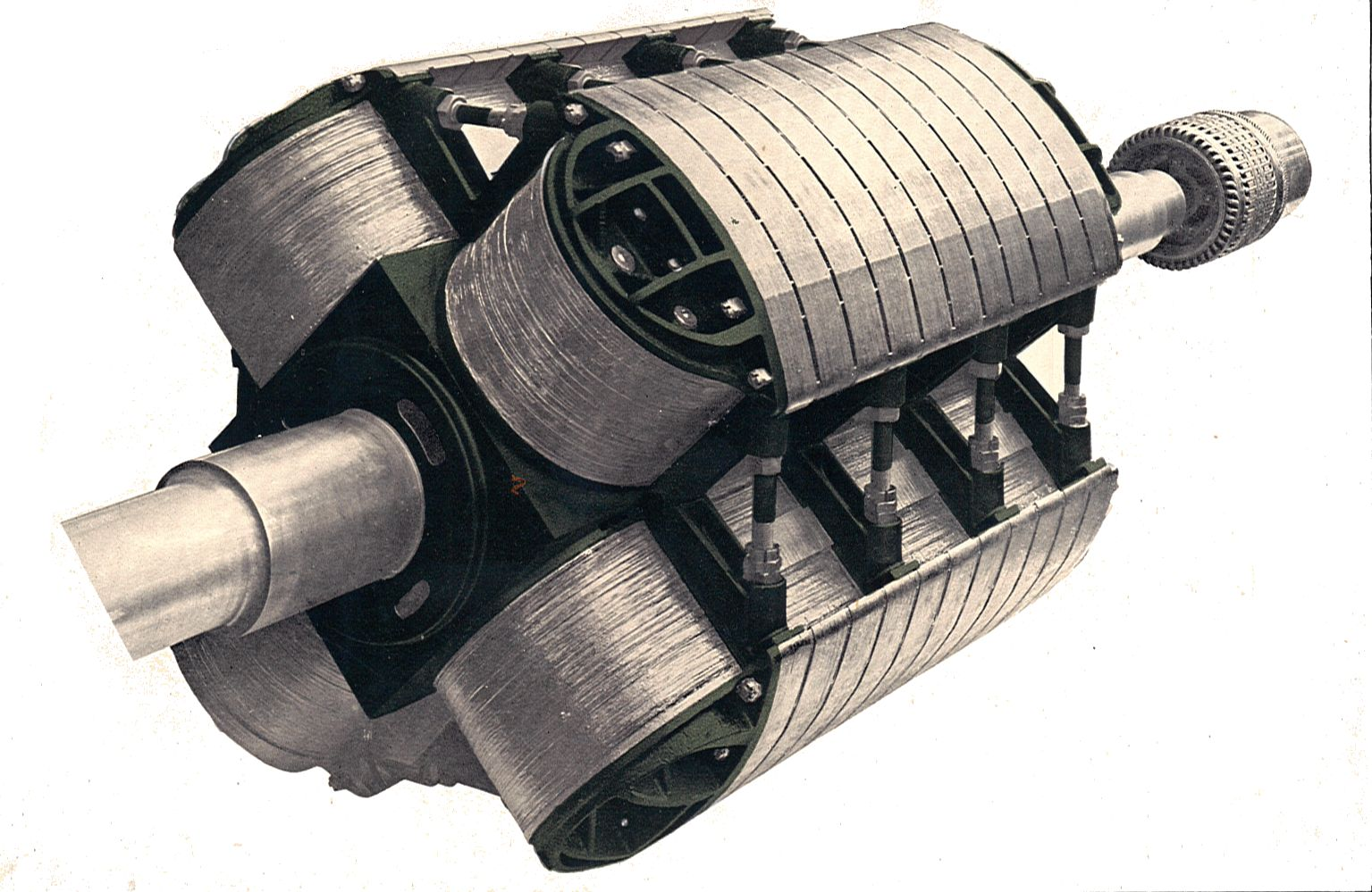 Rotary field magnet and exciter armature for high-speed alternator (Rankin Kennedy, Electrical Installations, Vol II, 1909).jpg